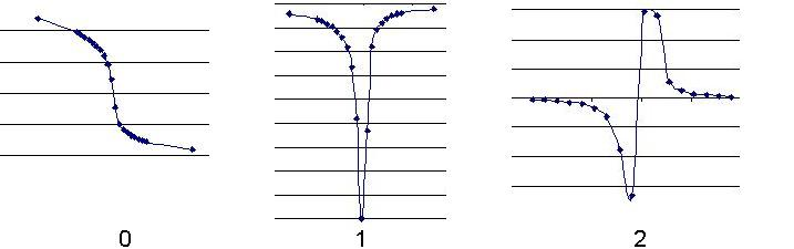 Measurements, first and second derivative in a potentiometric titration